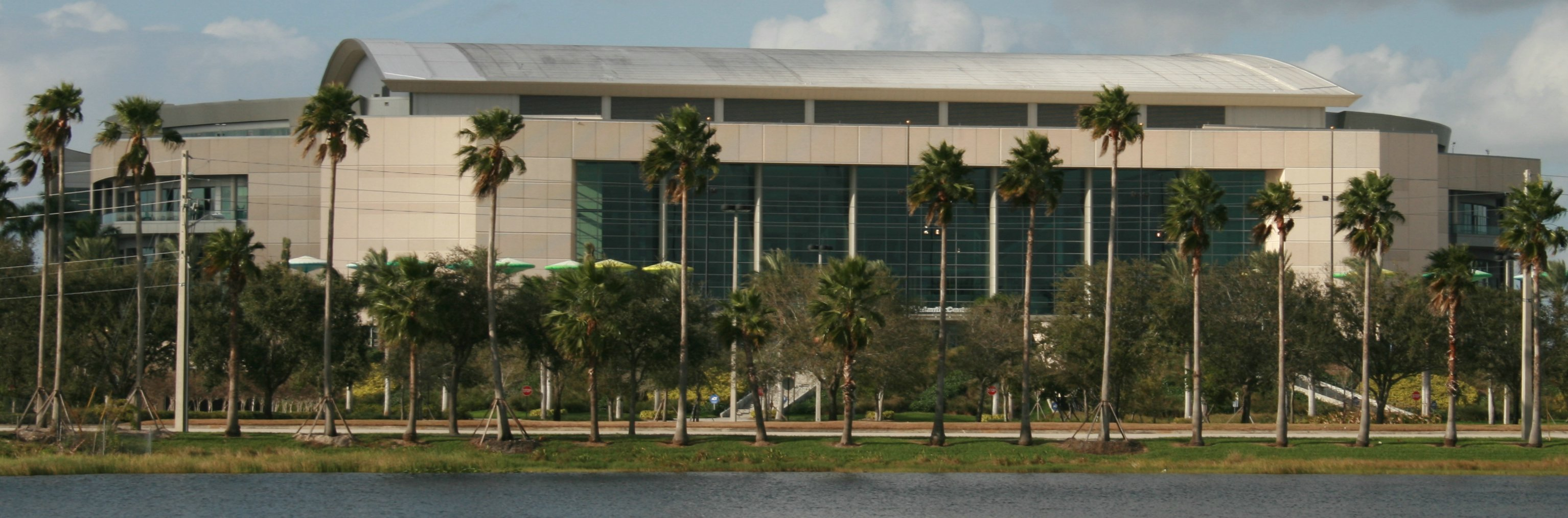 Picture taken by me of the Bank Atlantic Center from the Sawgrass Mills Mall parking lot. Cropped out sky and lake. --Douglas Whitaker 18:38, 2 January 2007 (UTC)